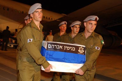 IPRED - Coffins of Staff Sgt. Binyamin Abraham, Staff Sgt. Adi Avitan and Staff Sgt. Omar Sawaed Arrive to Israel. Photos: IDF Spokesperson's Unit.